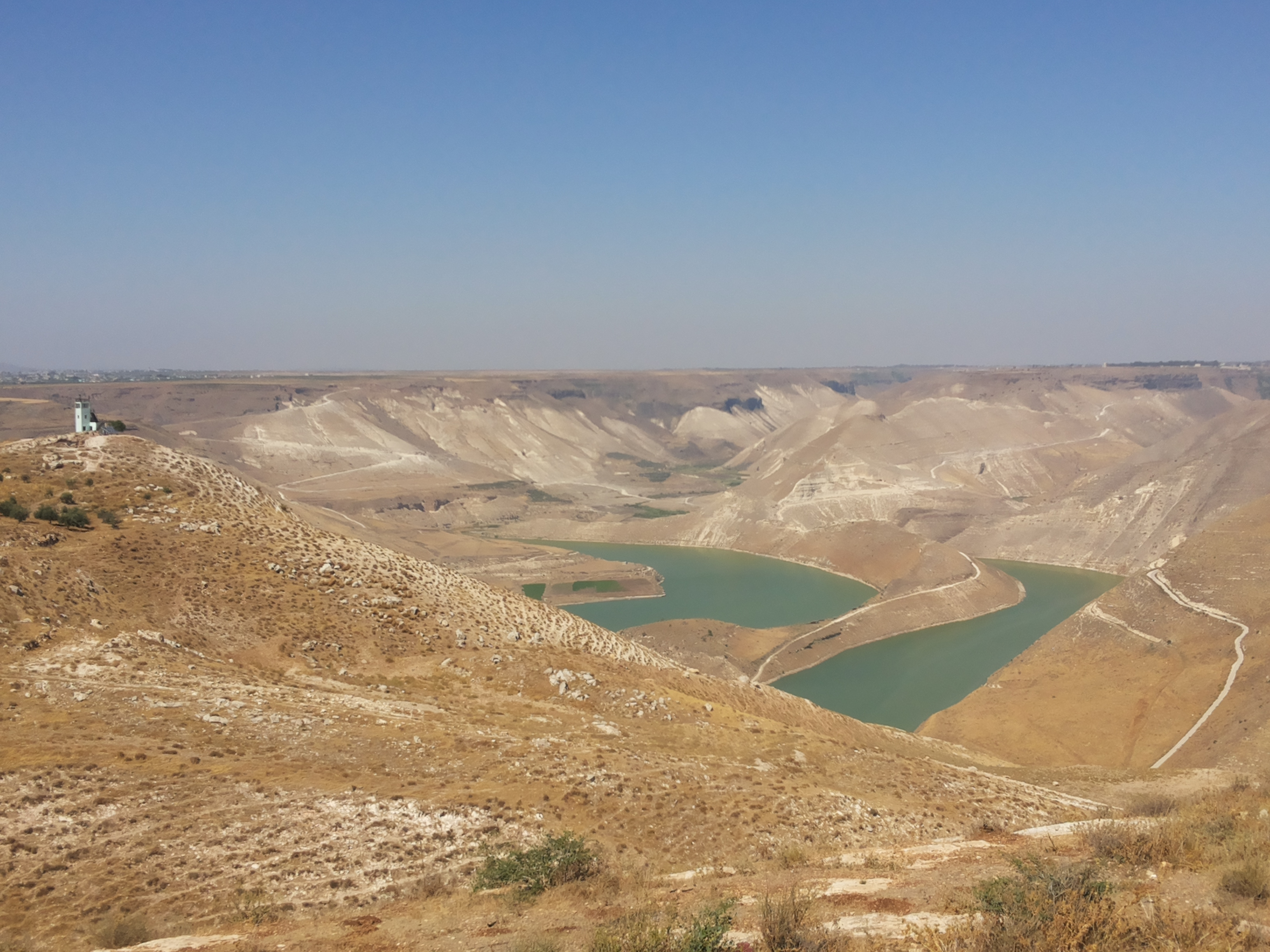 Al-Wehda Dam